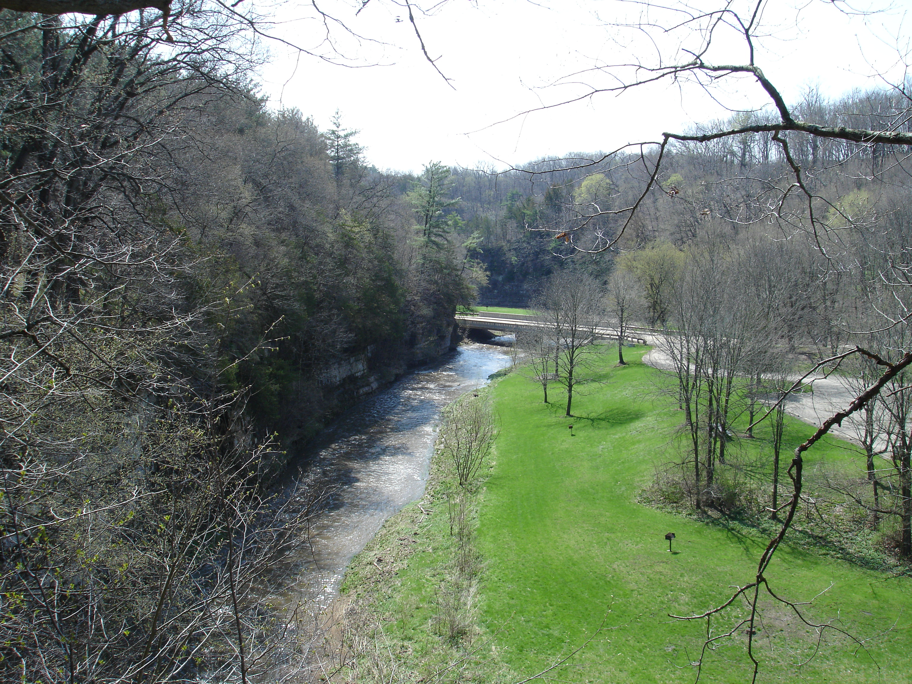 at Apple River Canyon State Park (Apple River pictured), south of Apple River, Illinois, USA.